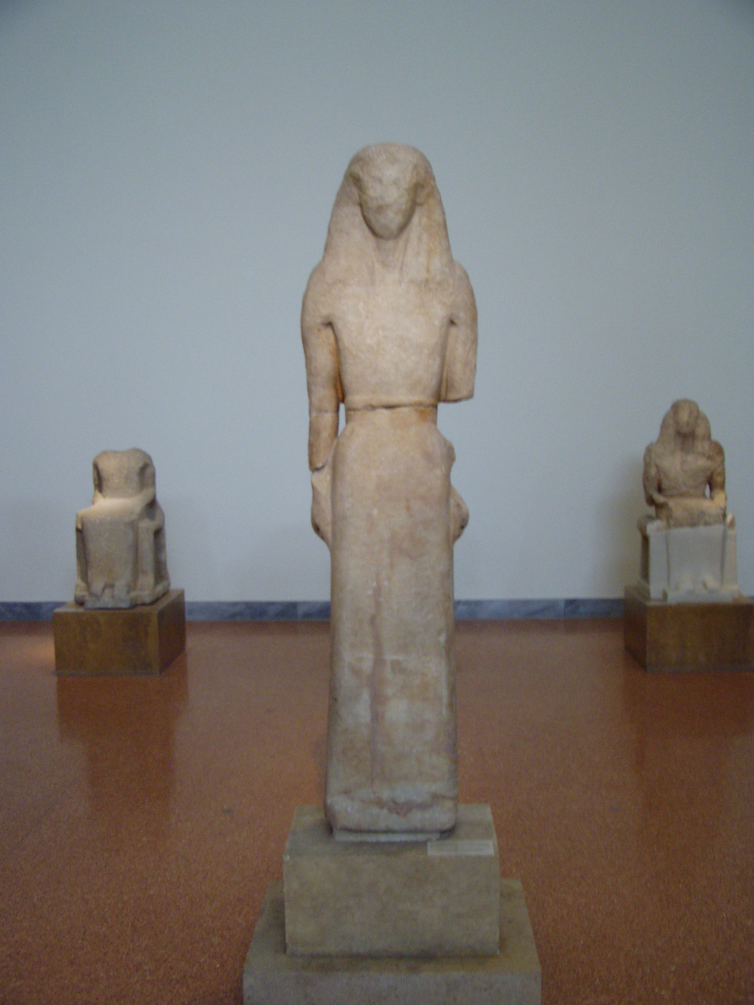 Statue of Nikandre, Kore, found 1878 at Delos, about 660 BC, now at the National Archeological Museum at Athens, Inventary-Number 1.